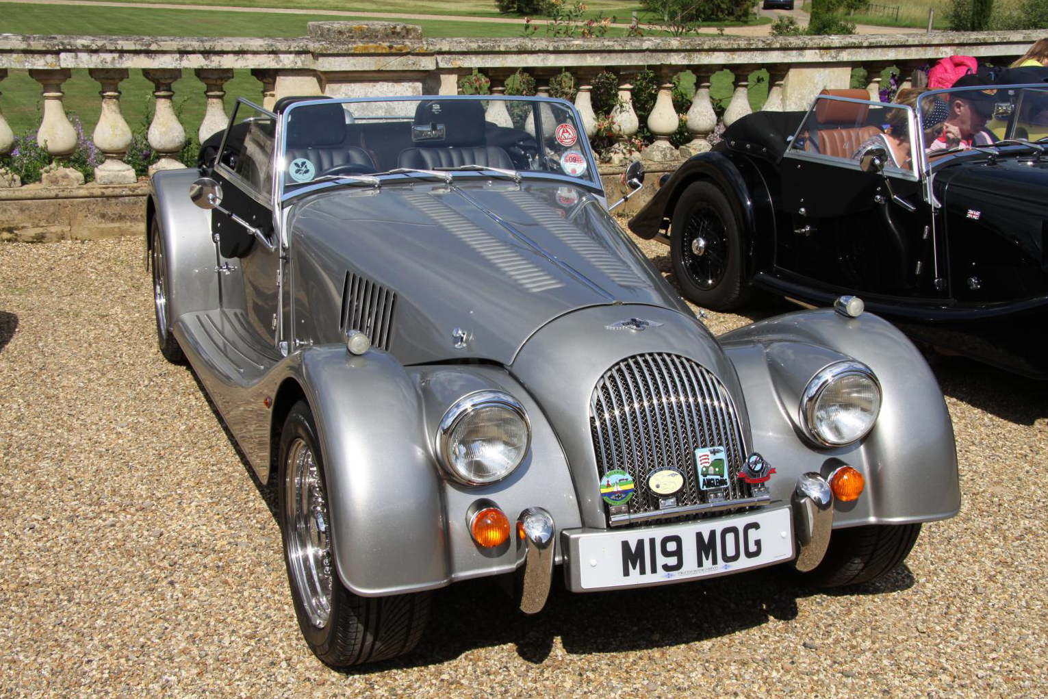 2007 Morgan Roadster V6 (3 litres) at the Eastern Counties area for the Morgan Sports Car Club